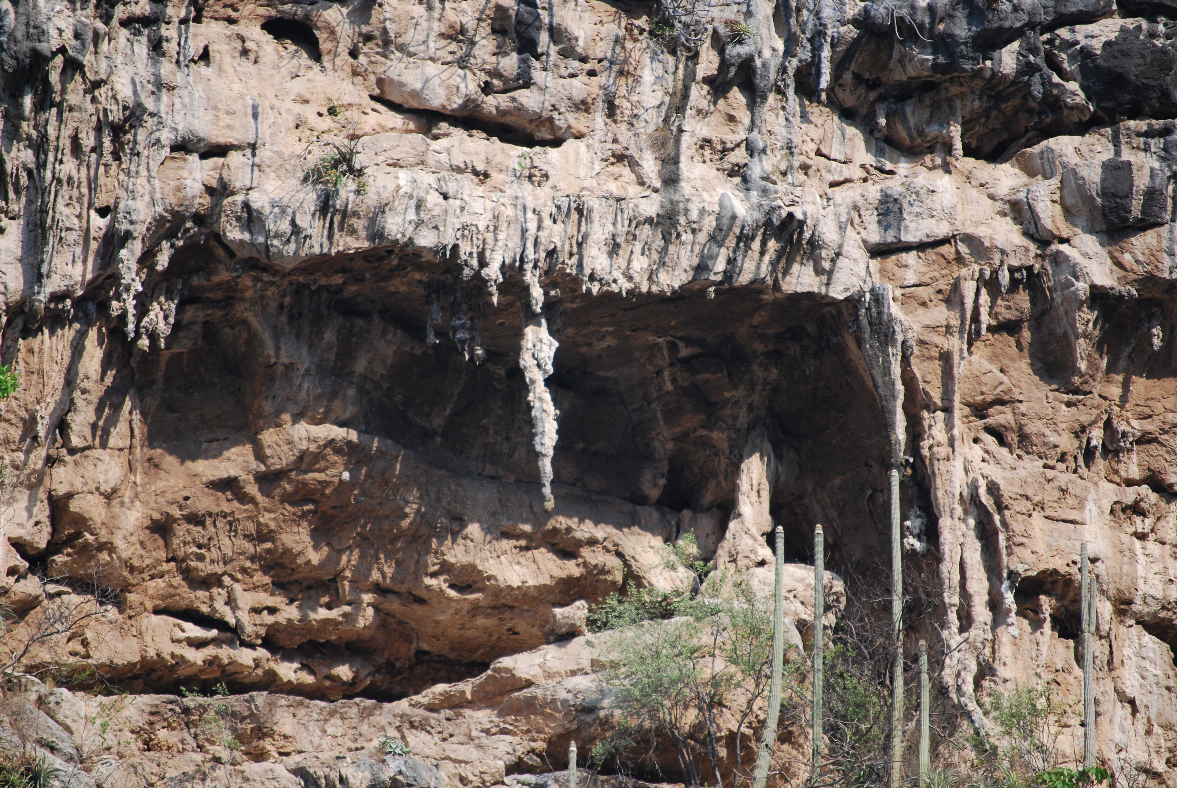 Rock formation called 'the Seahorse' in Sumidero Canyon — in the state of Chiapas, Southwestern Mexico.